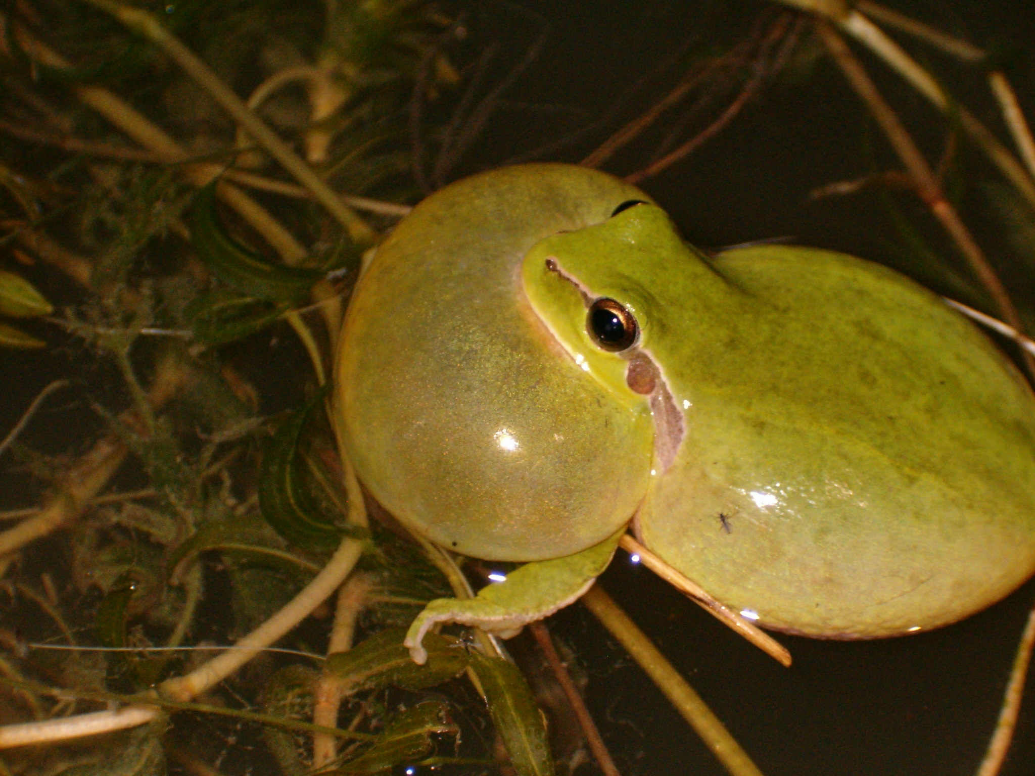 Hyla meridionalis male willing to call 24 March 2006 - 23h30 Notre-Dame-de-Londres - Hérault - France By David Delon